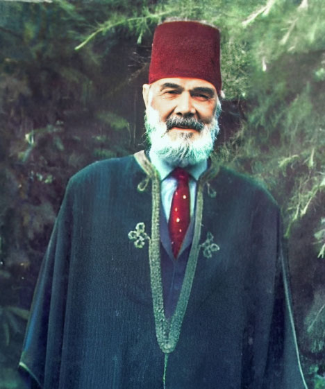 Messali Hadj